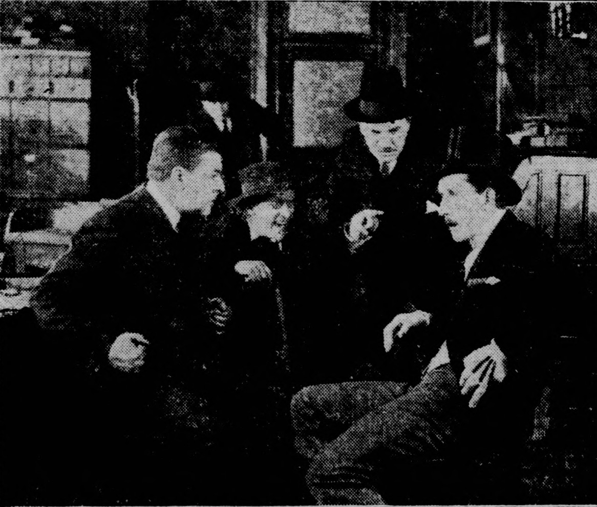 Newspaper scene from the Conspiracy